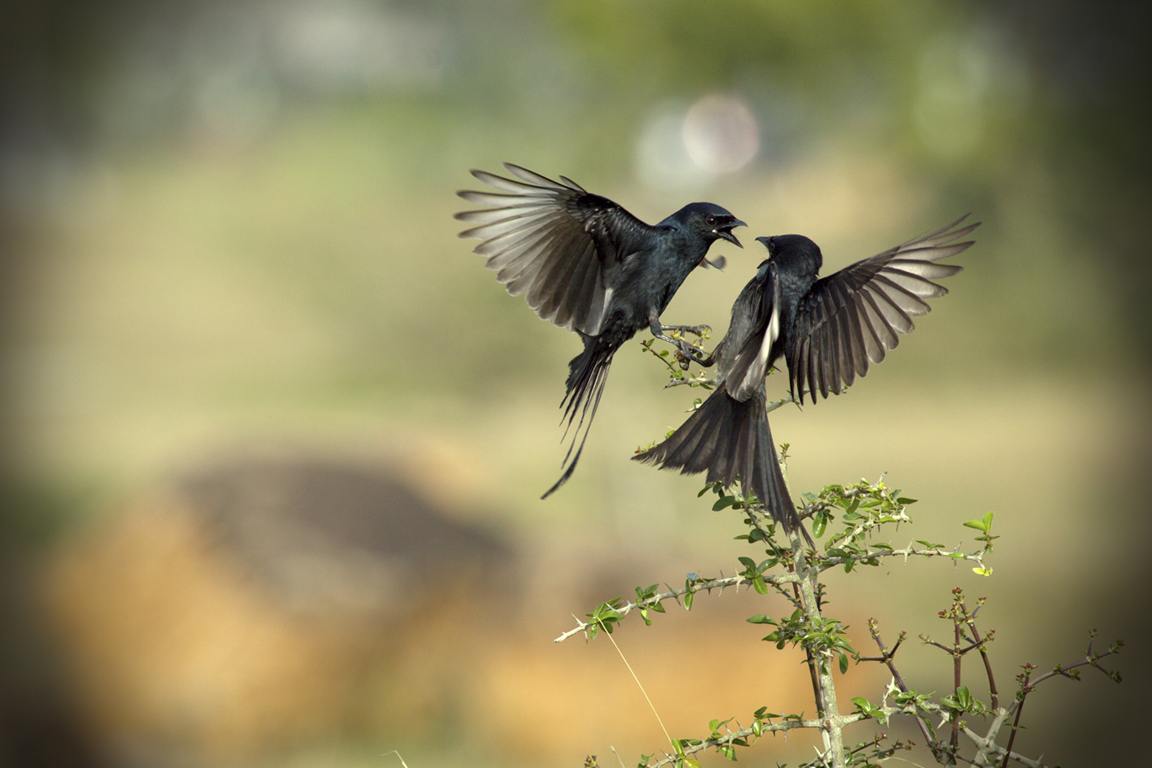 This was shot in siruthavur when i saw these drongo birds play very happily.